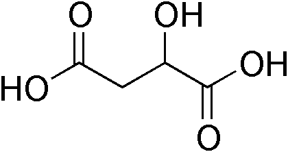 Chemical structure of malic acid created with ChemDraw.